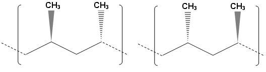 Racemo diad for tacticity article